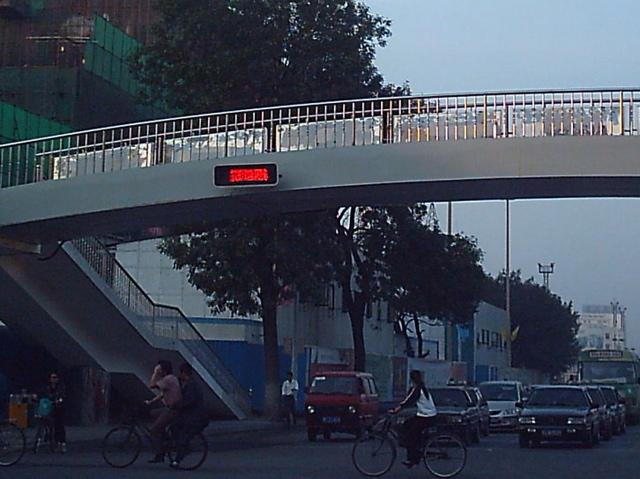 Tianjin Traffic Lights (1). DF08 2004 image.